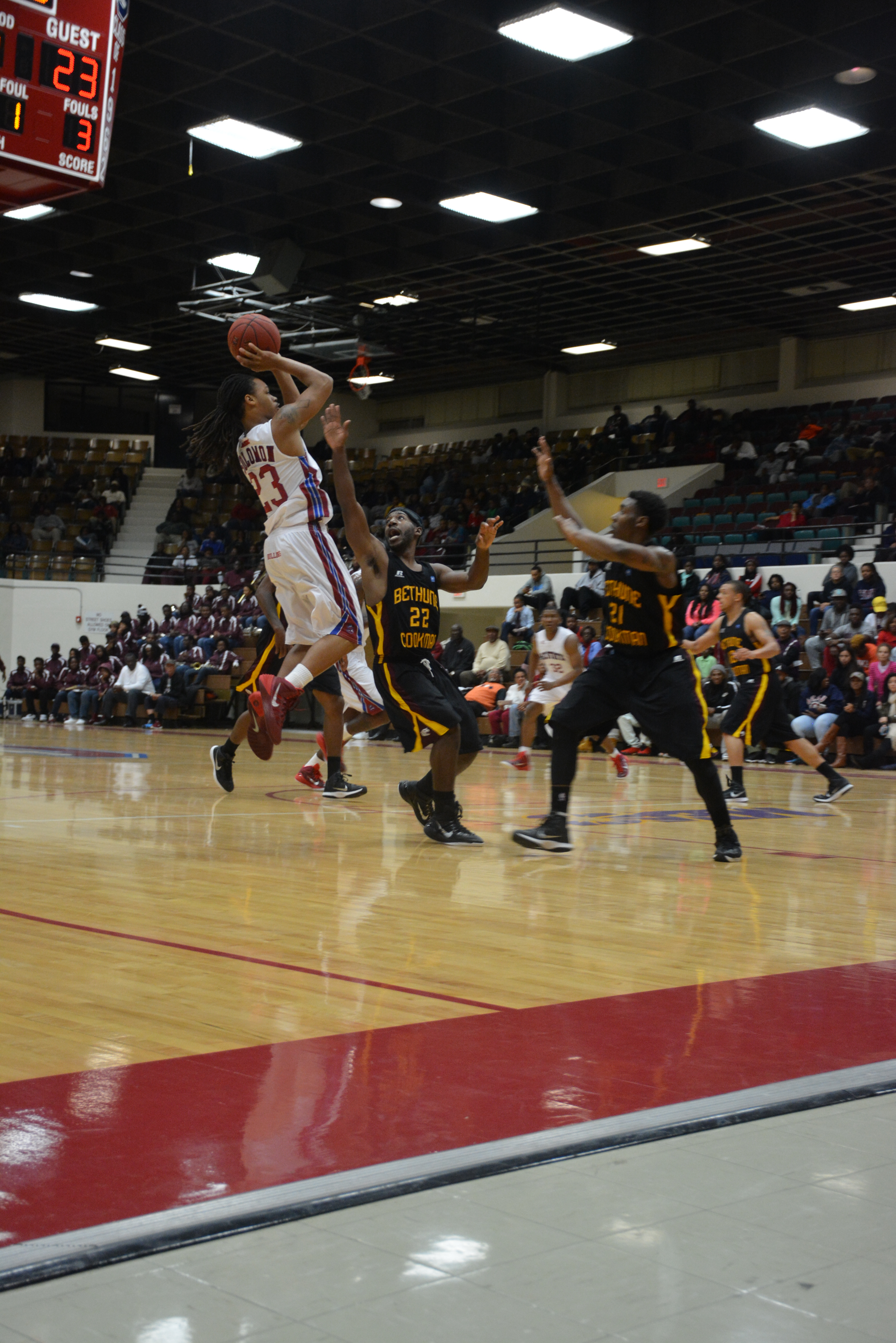 SC State Bulldogs Basketball Team